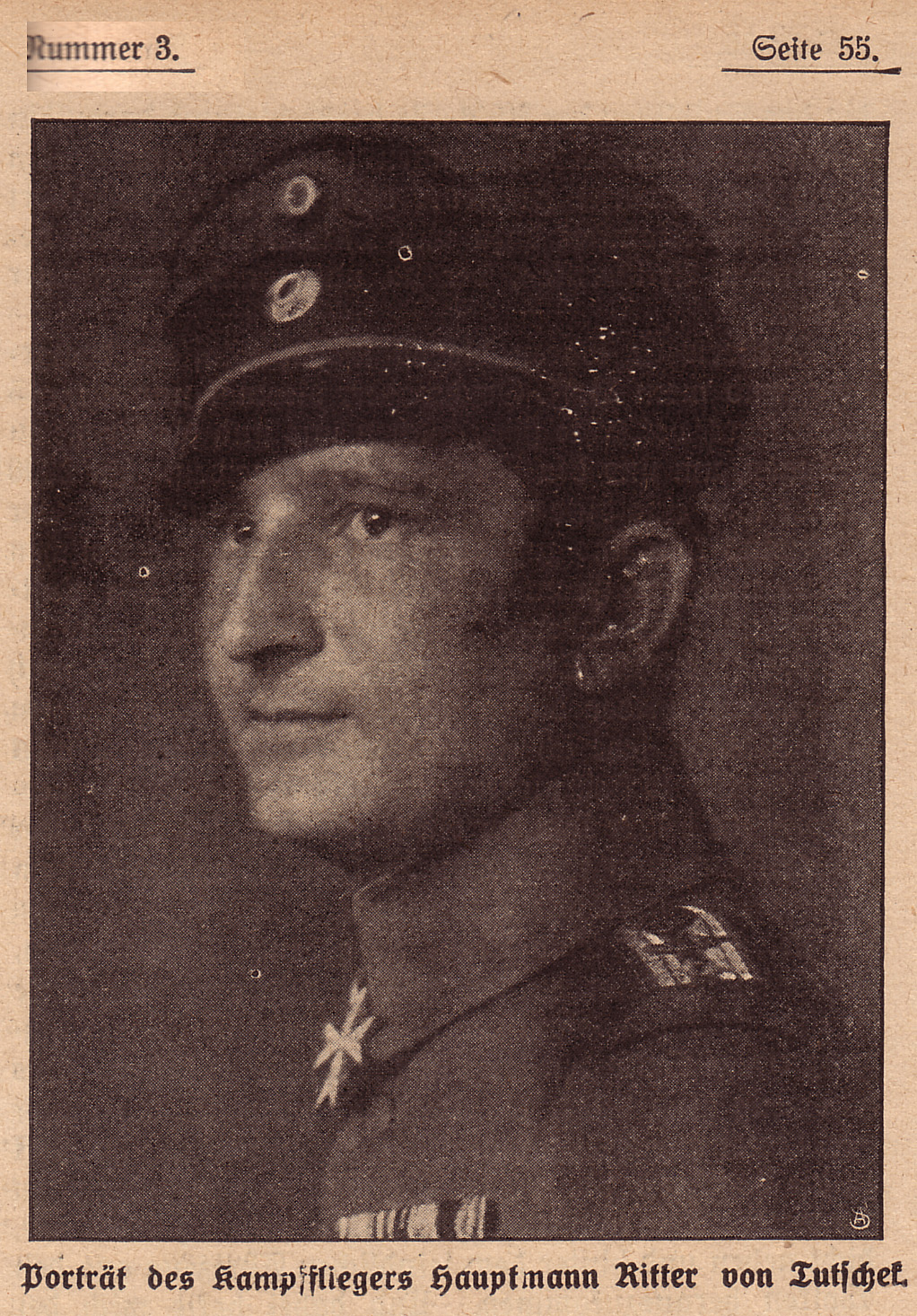 Captain Adolf von Tutschek (combat ace pilot WW1)